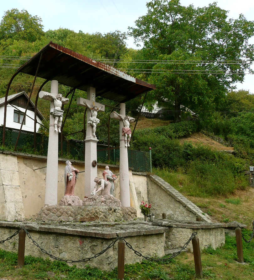 Calvary in the Hodruša-Hámre village, on the road towards Banska Stiavnica